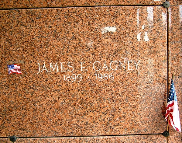 User:Anthony22 took this photograph of James Cagney's crypt in Gate of Heaven Cemetery as Image:1 Cagney best 800.jpg and licensed it as GFDL-self-with-disclaimers. User:Before My Ken cropped it, and licenses it as GFDL=self-with-disclaimers. -- GNU Free Documentation License